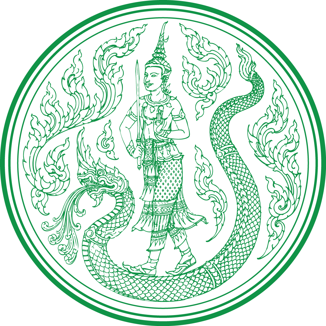 Emblem of Ministry of Agriculture and Co-operative, Kingdom of Thailand, published in the Royal Thai Government Gazette in 2010.